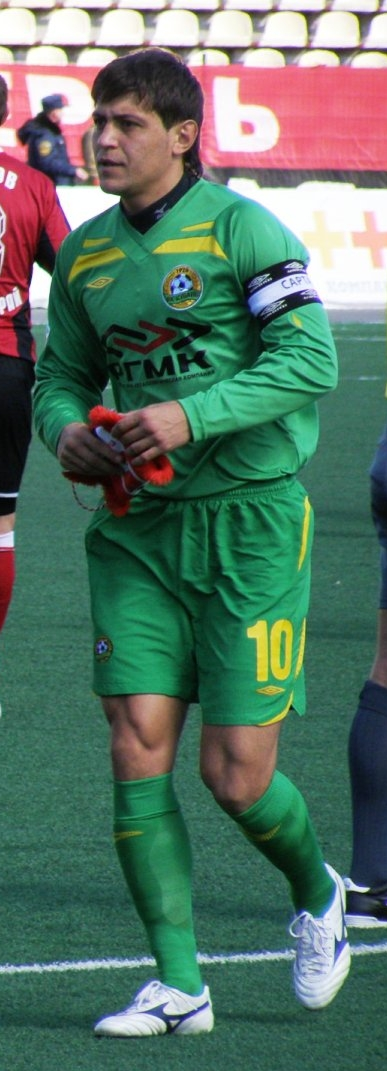 Andrei Topchu as a player of FC Kuban